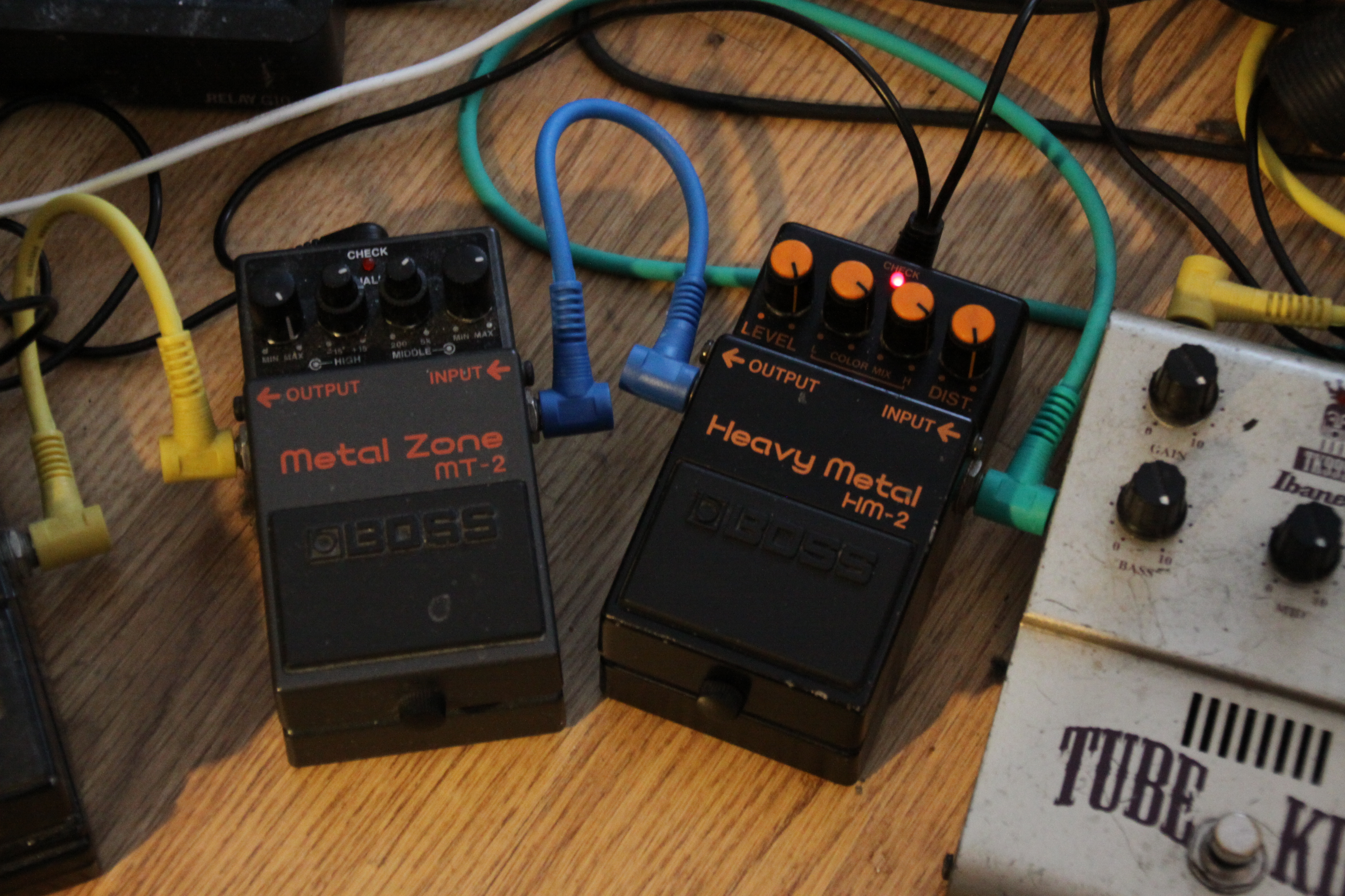 BOSS MT-2 Metal Zone and HM-2 Heavy Metal -distortion pedals.